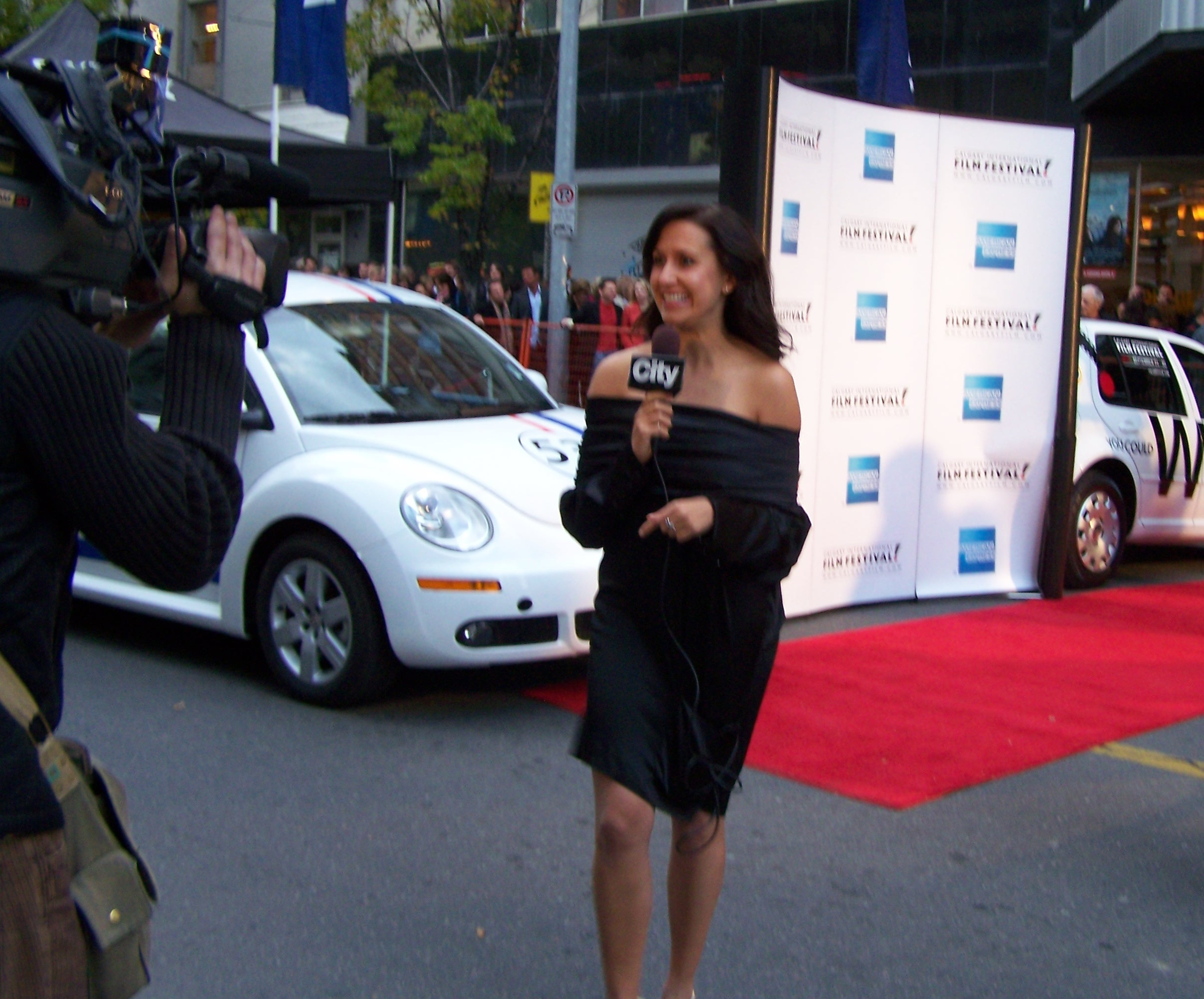 Jill Belland of CityTV covering the red carpet at the gala showing of Walk All Over Me during the Calgary International Film Festival. The film was shown at the Uptown Stage at 612 8th Avenue SW, Calgary, Alberta, Canada.